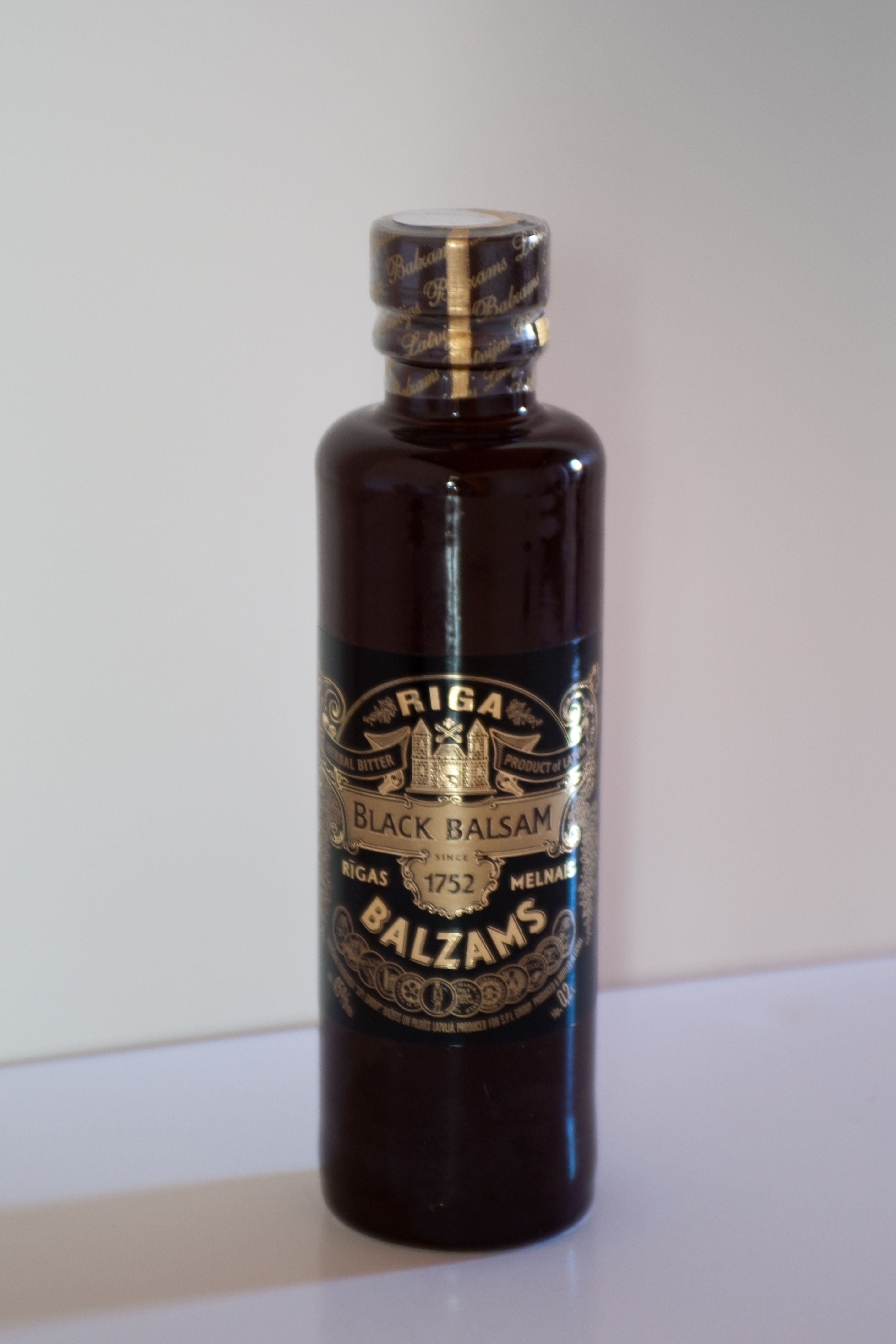 Herbal liquor of Latvia.